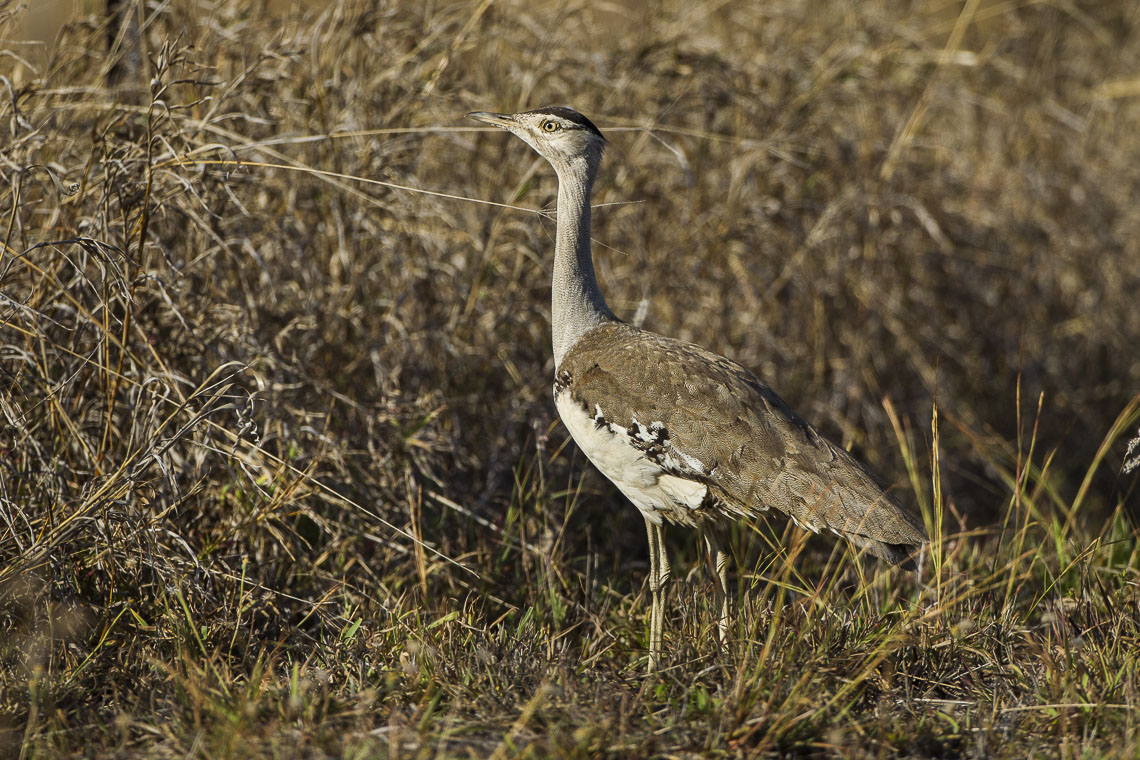 Australian Bustard - Kingfisher Park - Queensland_S4E0123